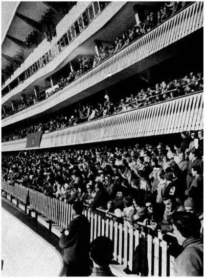 An event at the Ice Stadium during the 1956 Winter Olympics in Cortina d'Ampezzo, Italy. Author unknown. Photo found on: Per below, Italian copyright expired in the 1970s, therefore not copyrighted in the US.